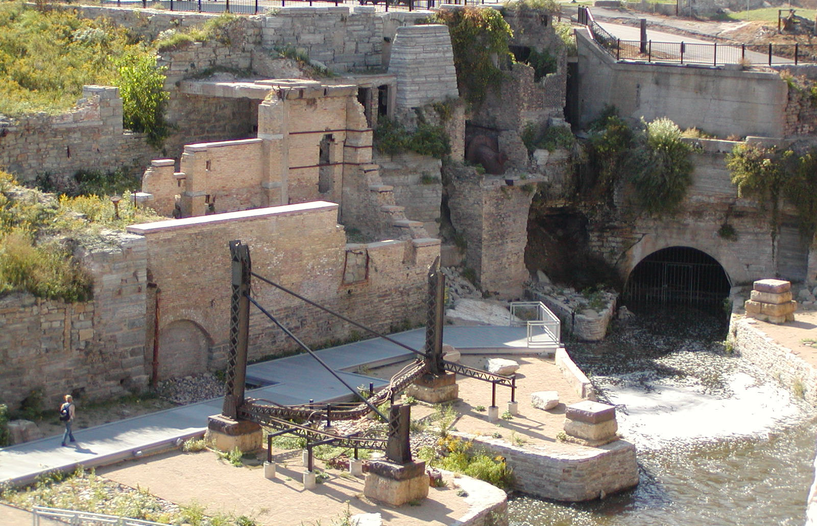 Mill Ruins Park Foundations